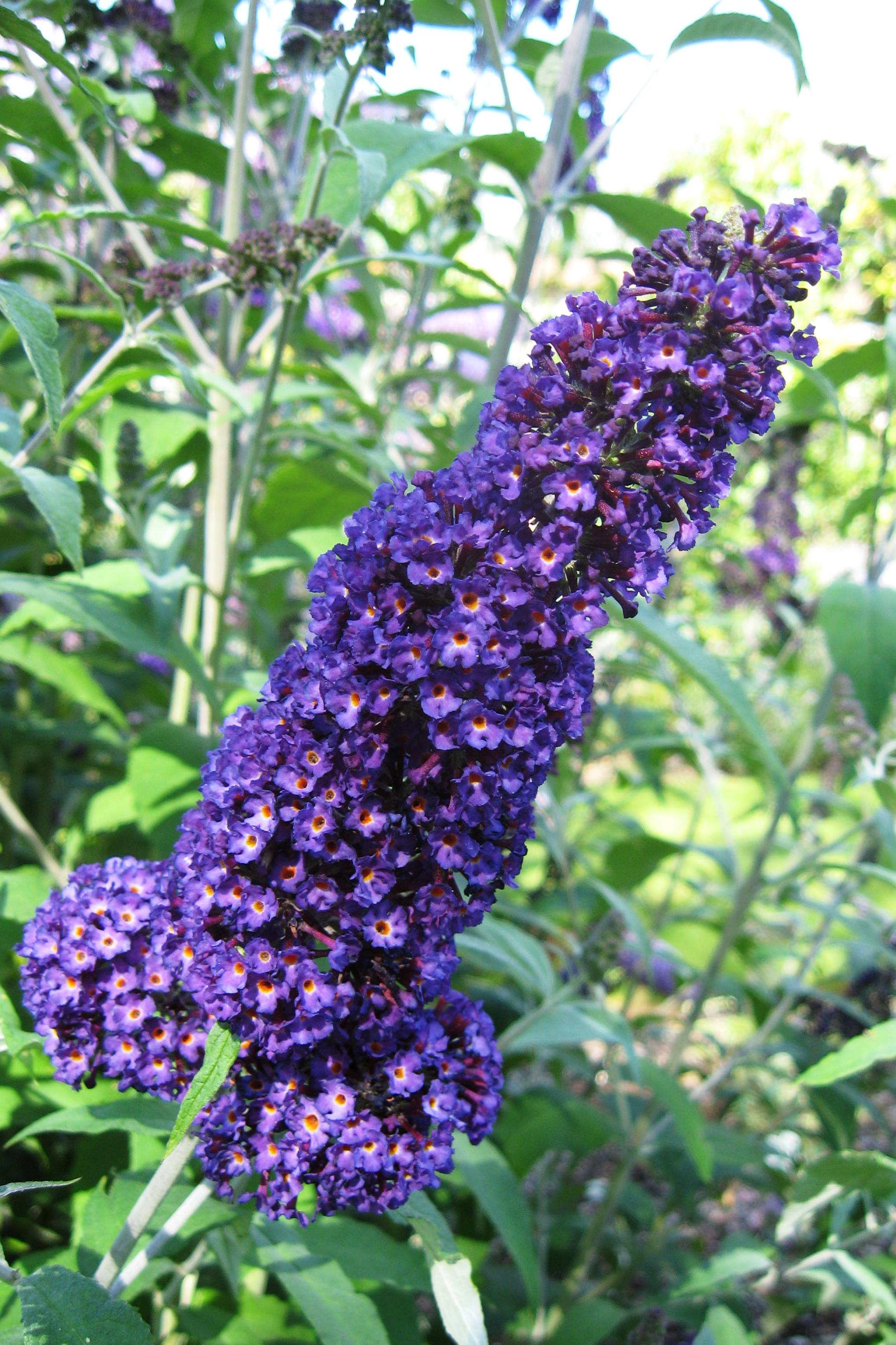 Photo of Buddleja cultivar 'Purple Friend' taken at Longstock Park, UK, August 2012